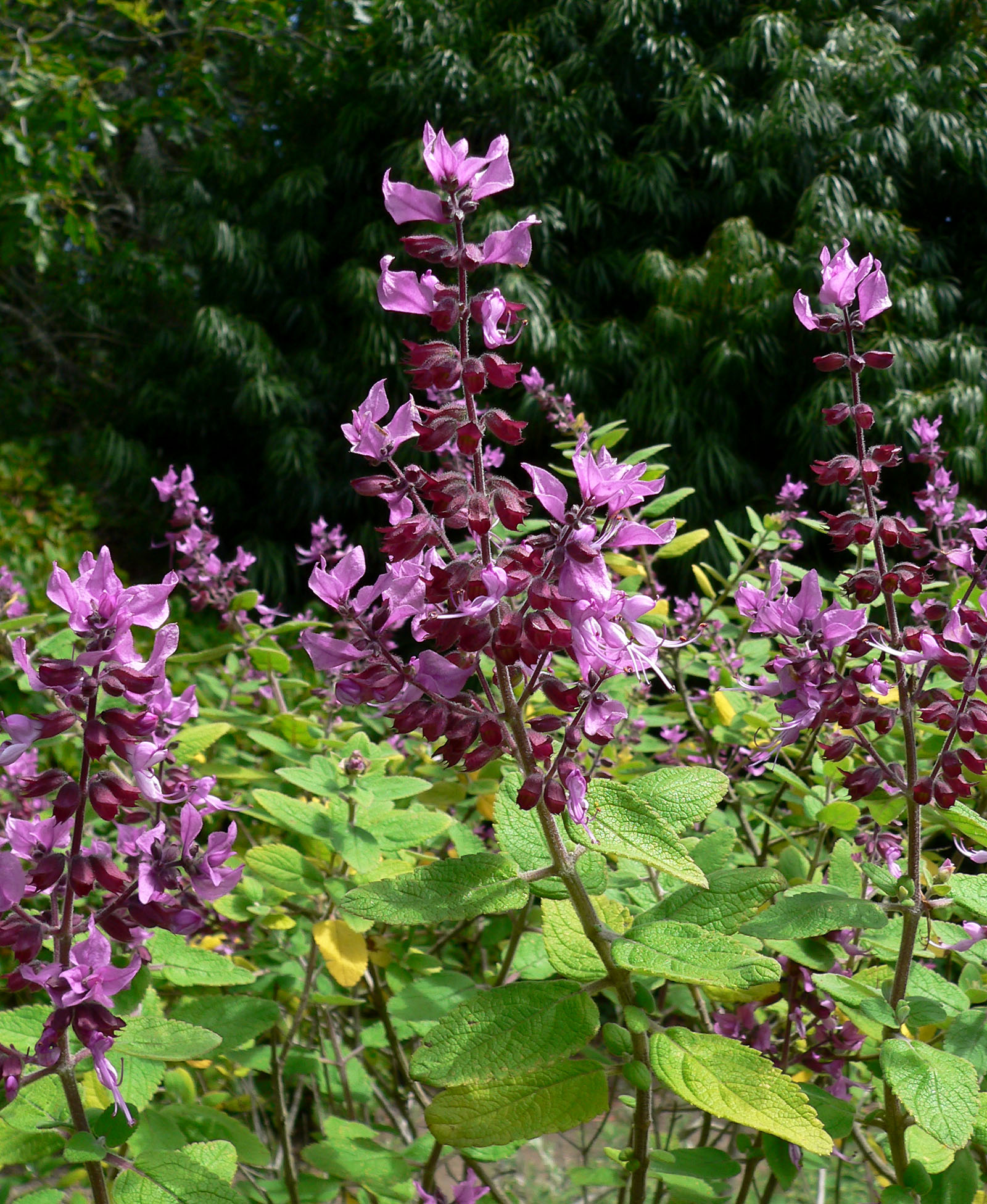 Syncolostemon obermeyerae (labelled Hemizygia obermeyerae) at the San Francisco Botanical Garden